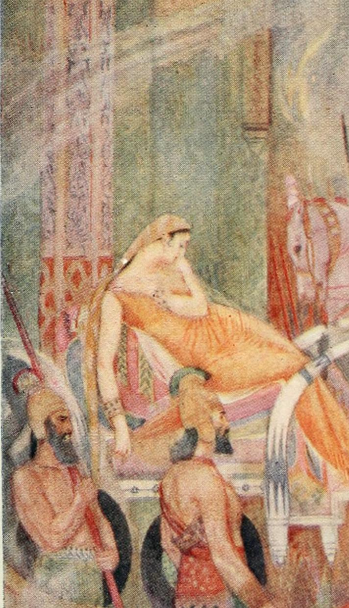 Title: Myths and legends of Babylonia & Assyria Year: 1916 (1910s) Authors: Spence, Lewis, 1874-1955 Subjects: Assyro-Babylonian religion Mythology, Assyro-Babylonian Legends Cults Publisher: London : Harrap Text Appearing Before Image: ' Text Appearing After Image: m^